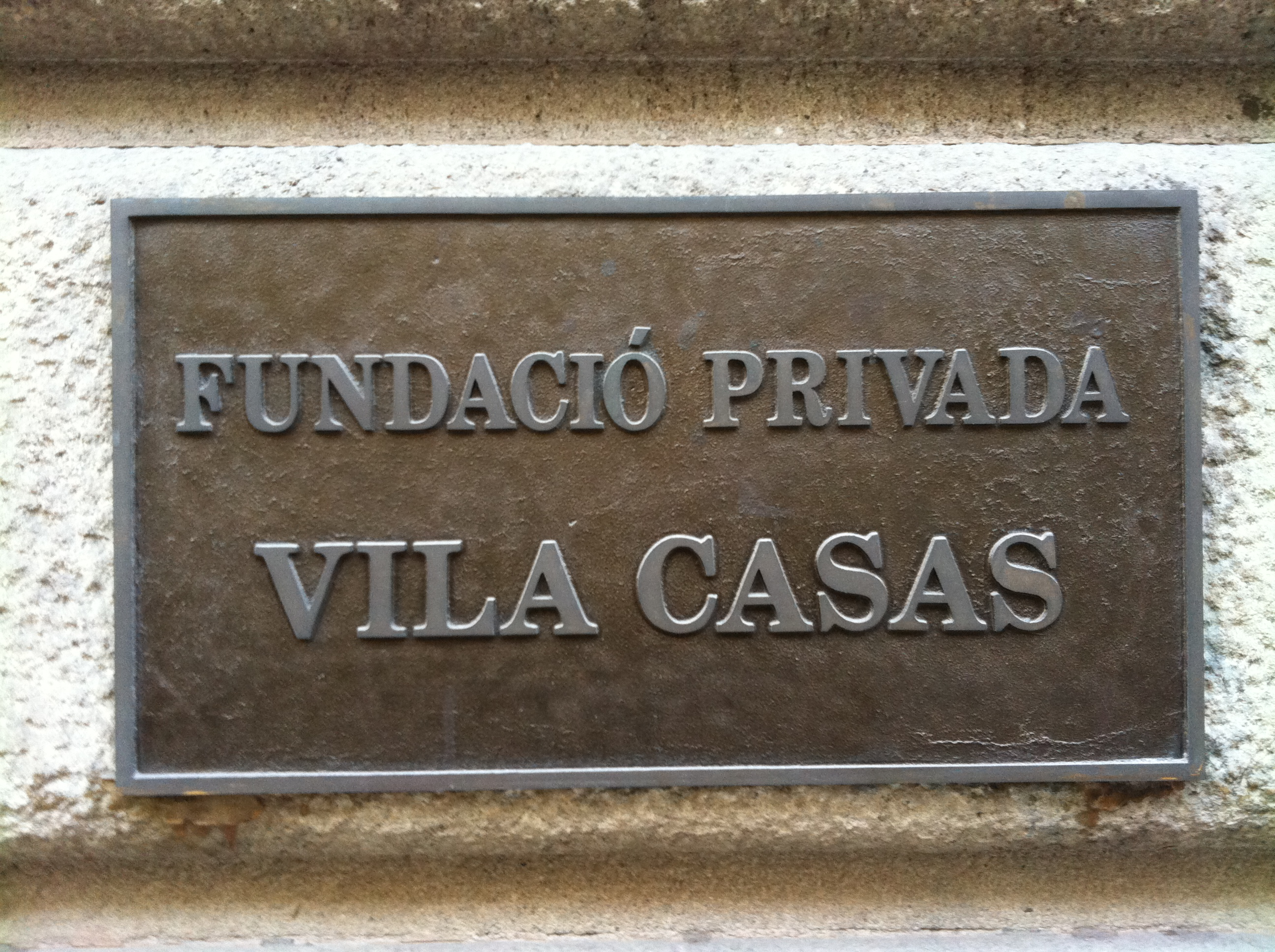 Plaque of de Vila Casas Foundation in Barcelona